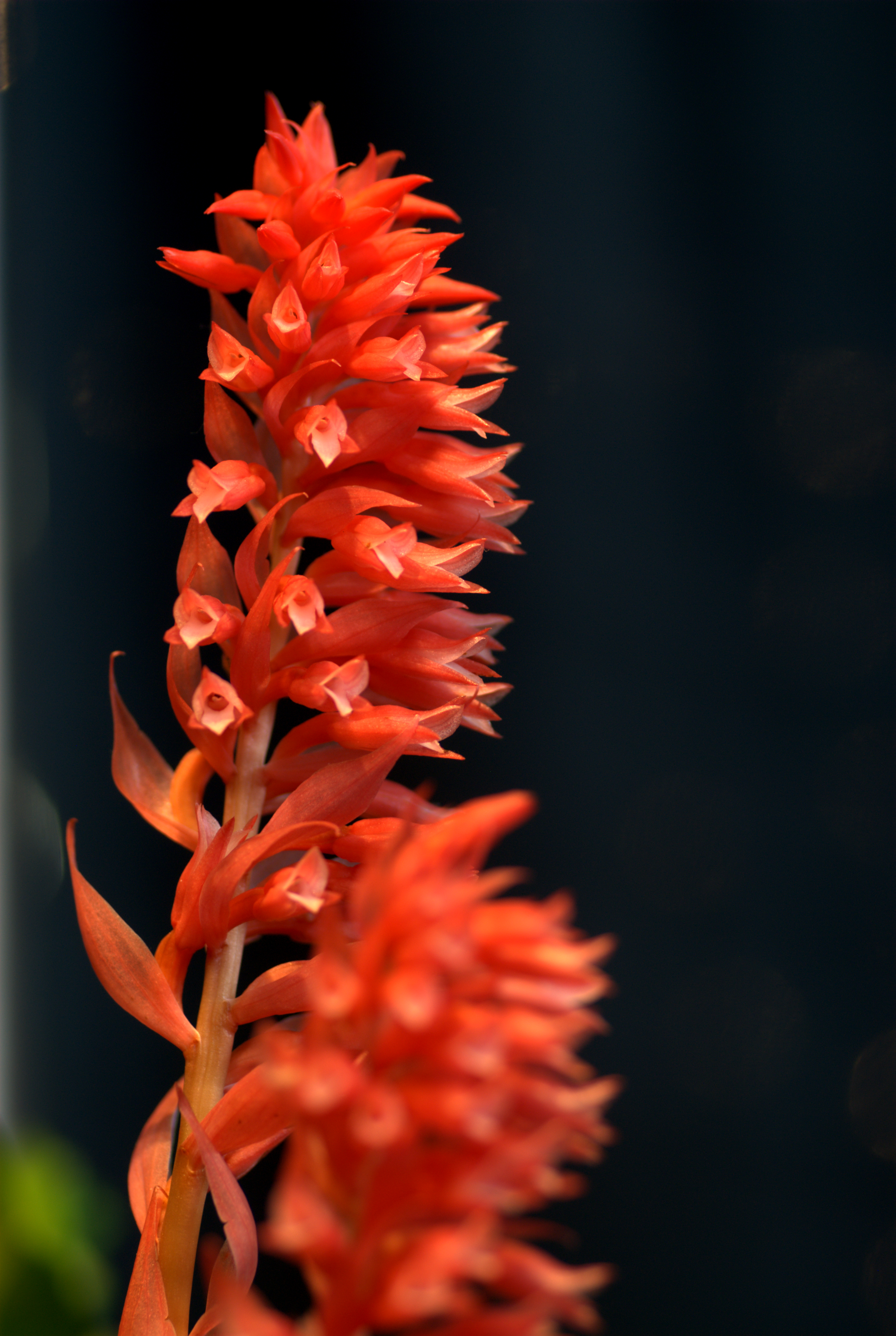 Stenorrhynchos speciosum at the Pacific Orchid Exposition 2010.